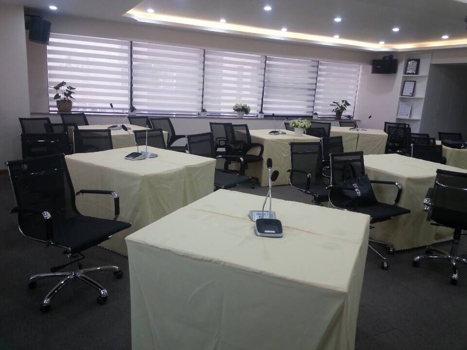 2.4G FS-FHSS Wireless Conference Microphone